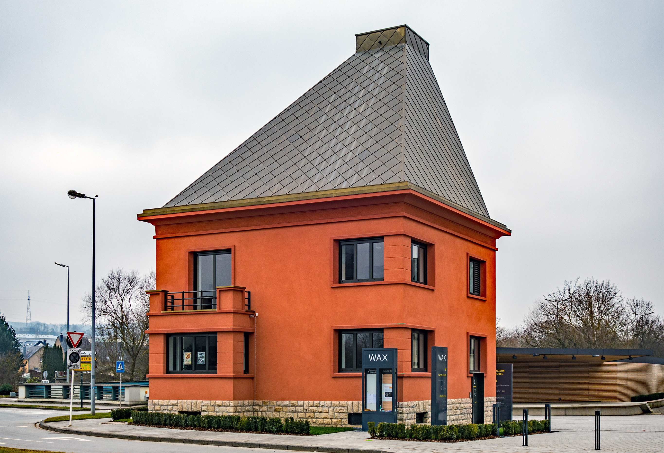 The red house near the Cultural centre Wax in Pétange